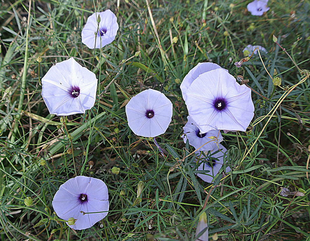 Triple-leaf Morning Glory is found in Central America, Mexico and southern U.S. A